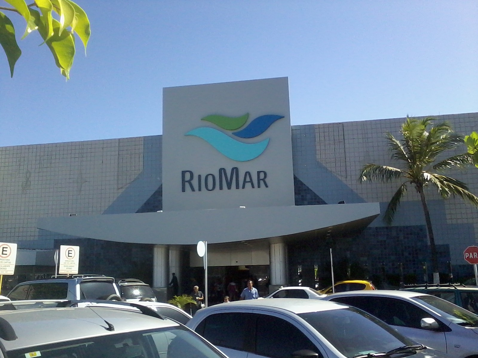 Fachada do RioMar Shopping em Aracaju - Sergipe - Brasil.